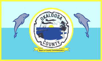 The official flag of Okaloosa County, Florida. It was unveiled in April 2002 and was designed by George Schweickert, from Destin, Florida.